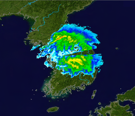 Radar data from U.S. Air Force WSR-88Ds in South Korea at Camp Humphreys Airbase (RKSG), from 2006-07-10 when Severe Tropical Storm Ewiniar made landfall, overlaid on NASA Blue Marble base map.